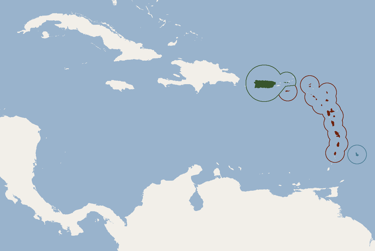 Geographical distribution of Brachyphylla cavernarum according to museum specimens